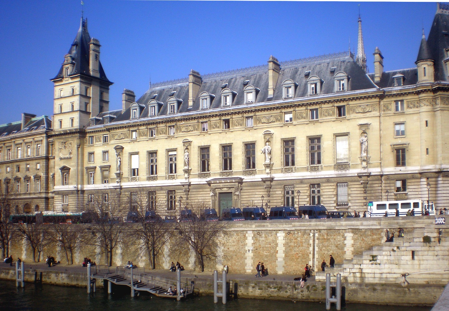 Quai des Orfèvres - Paris